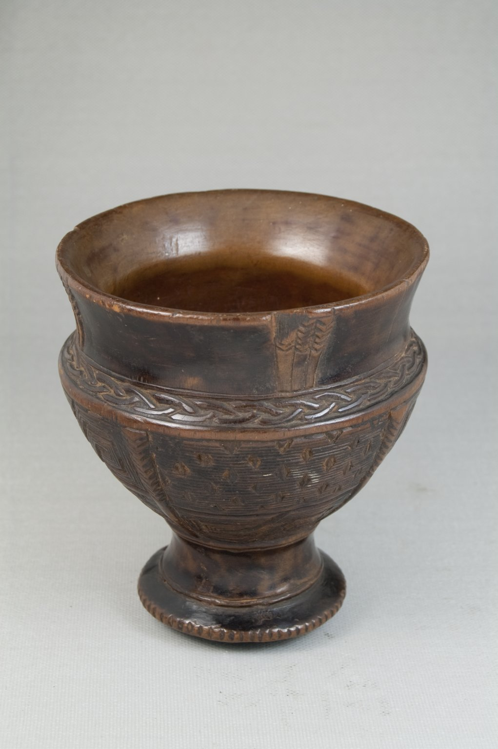 Short-stemmed goblet decorated with varied incised geometric motifs and lines. Condition:Very good, with mellow brown patina. Several small chips at lip.